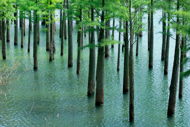 花都王子山Scenery in Guangzhou, China